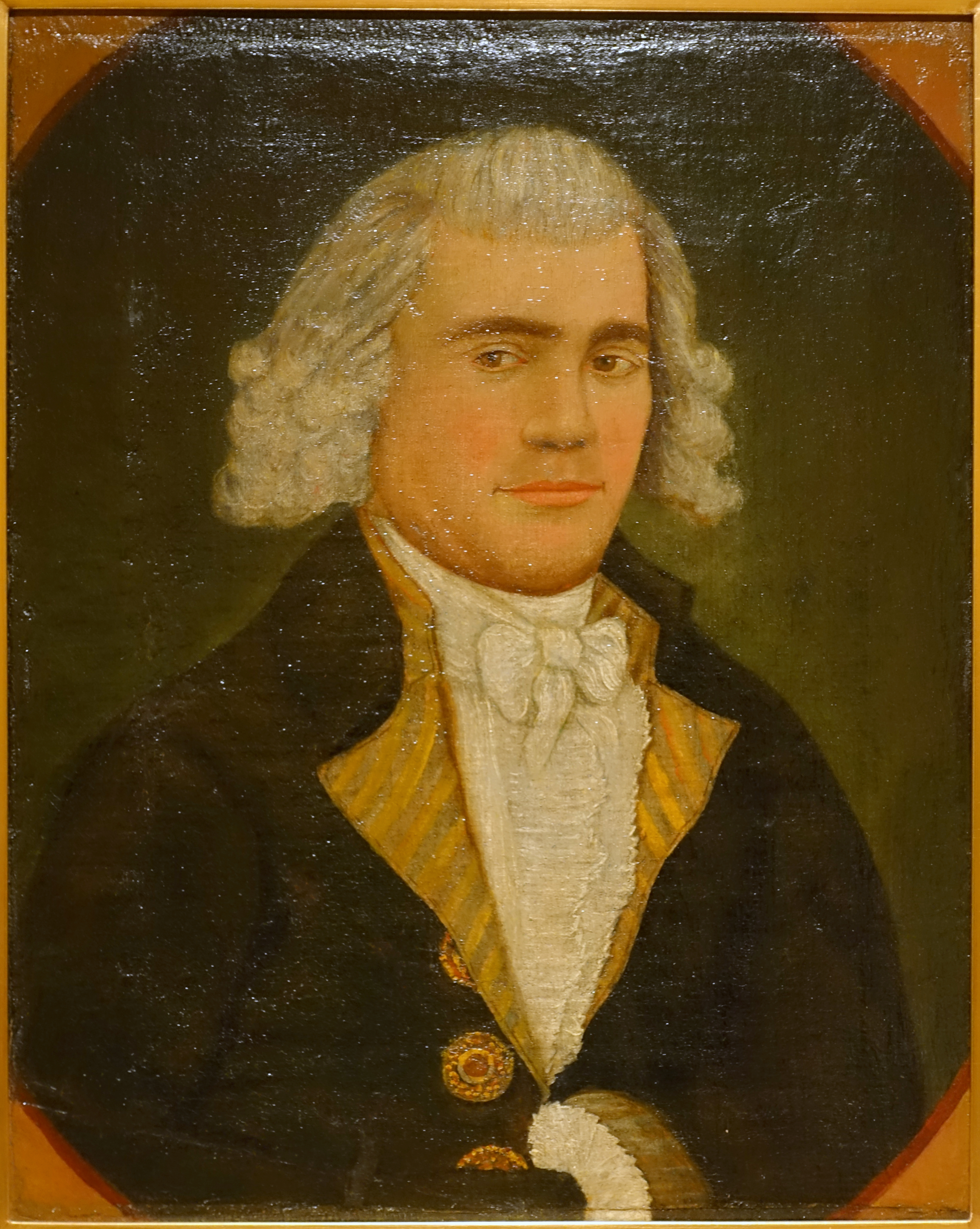 Exhibit in the Château Ramezay - Montreal, Quebec, Canada.